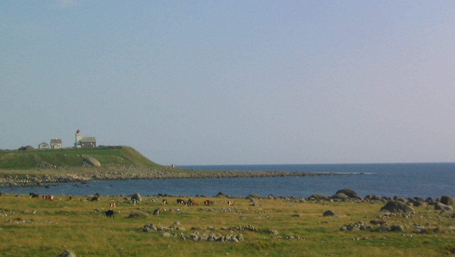 Obrestad fyr in Hå, Jæren, Norway